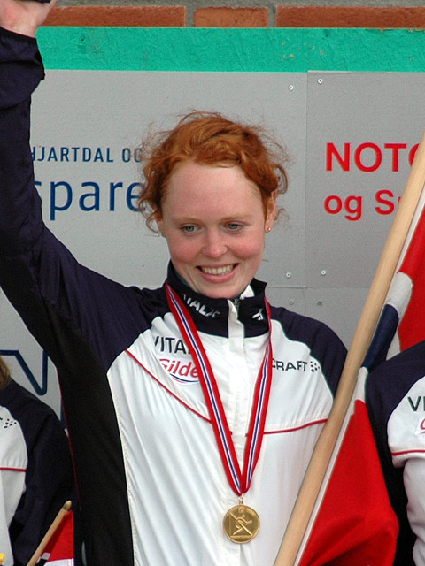 Betty Ann Bjerkreim Nilsen at the Nordic Orienteering Championships in Notodden, Norway 2005.